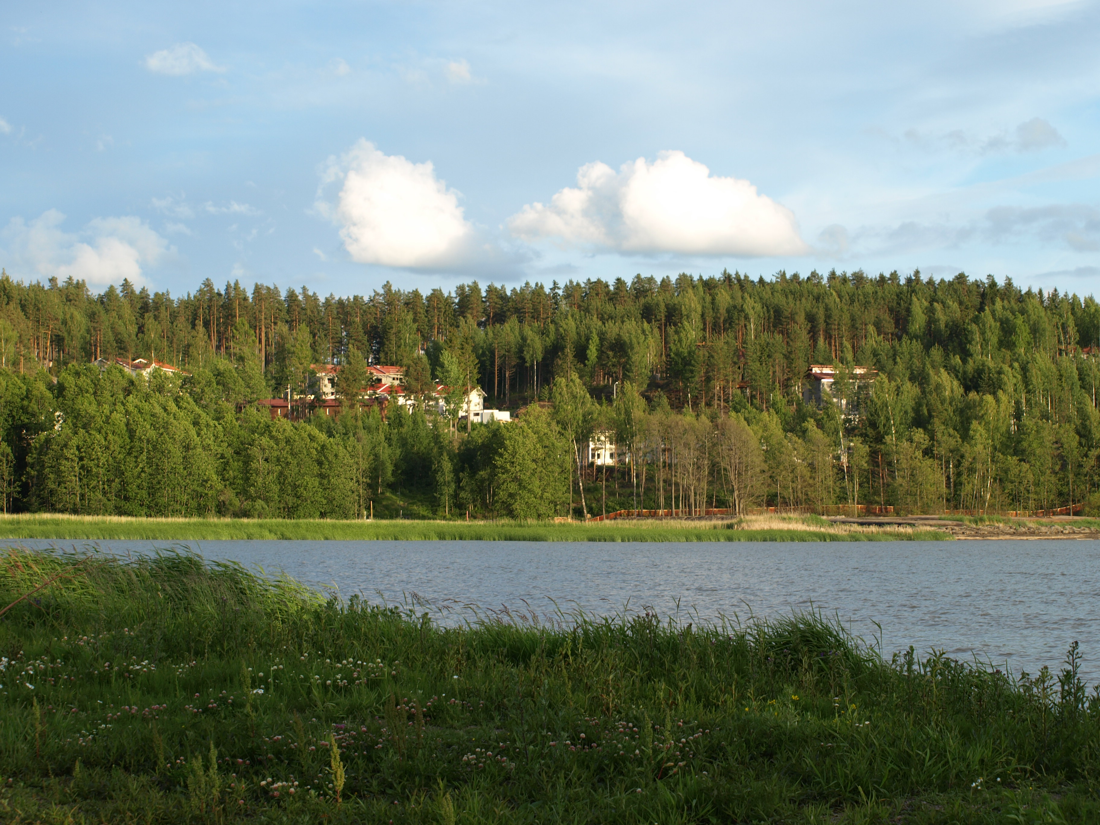 Viitannummi, a District of Salo.